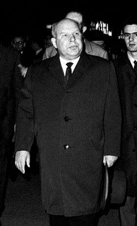 Italian industrialist and President of Fiat Vittorio Valletta and Minister of Automobile Industry of the Soviet Union Aleksandr Tarasov walking in the railway station of Turin. The meeting ratified an agreement to build a Fiat plant for average-engined cars production in the Volga region. Turin, April 1966